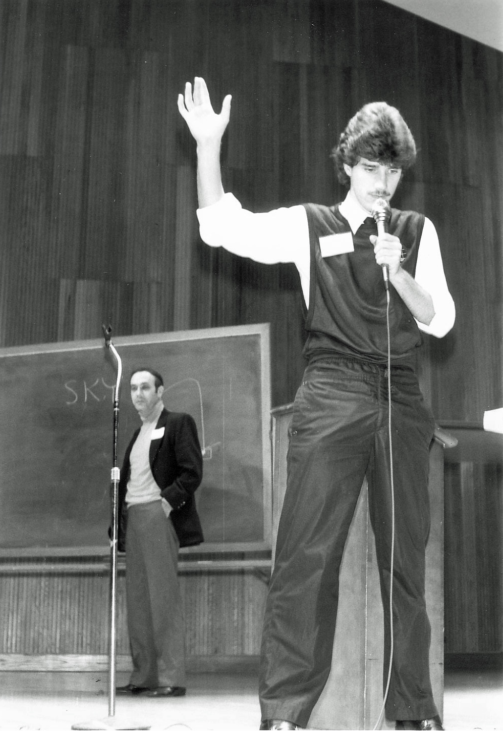 Mentalist Steve Shaw (Banachek) at the 1983 CSICOP Conference in Buffalo, NY.